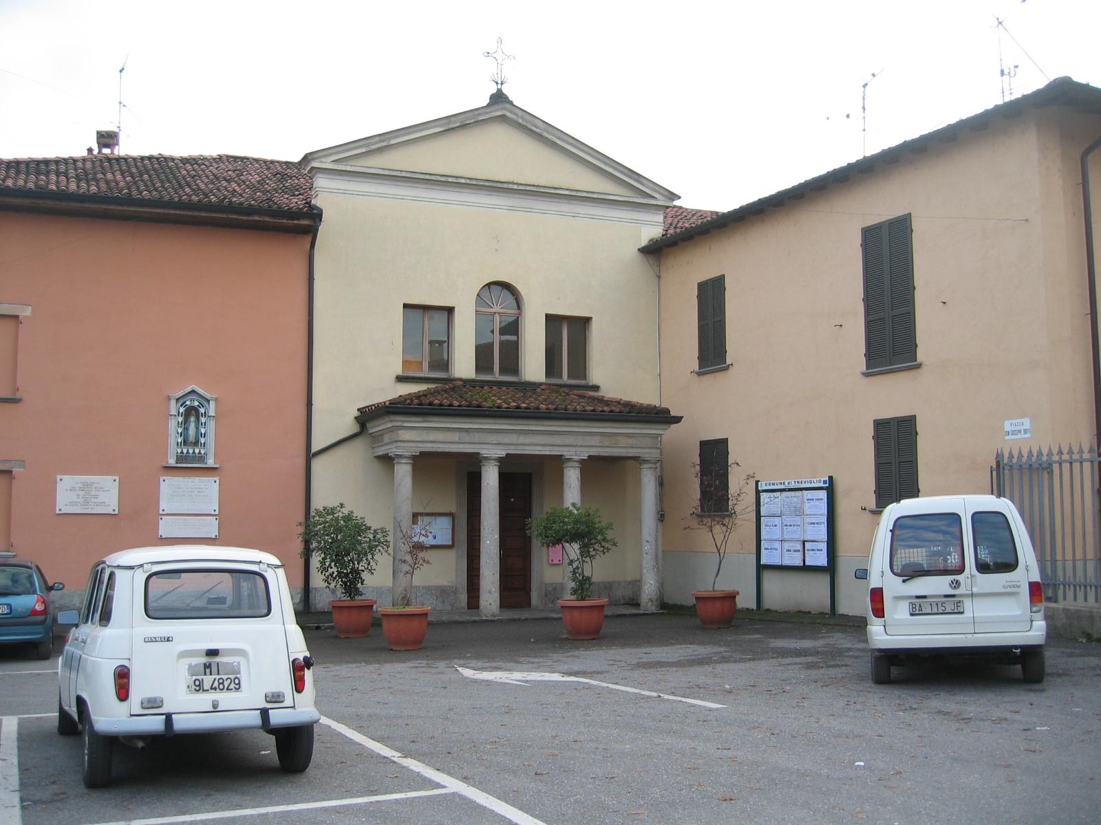 The church of Castel Cerreto, Treviglio